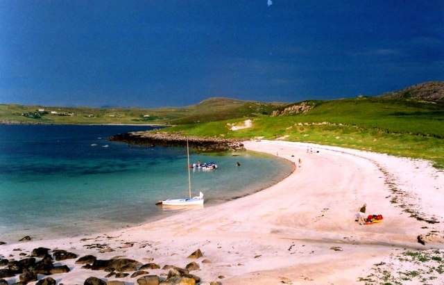 The shell-sand beach on Isle Ristol, Summer Isles, near to Altandhu, Highland, Great Britain. The spatter of isles in the mouth of outer Loch Broom, Wester Ross, are called the Summer Isles because they provided summer grazing for livestock from the mainland. There are few places where boats can be drawn up, and the pure white, gently shelving, shell-sand beach on the north side of Isle Ristol is exceptional.